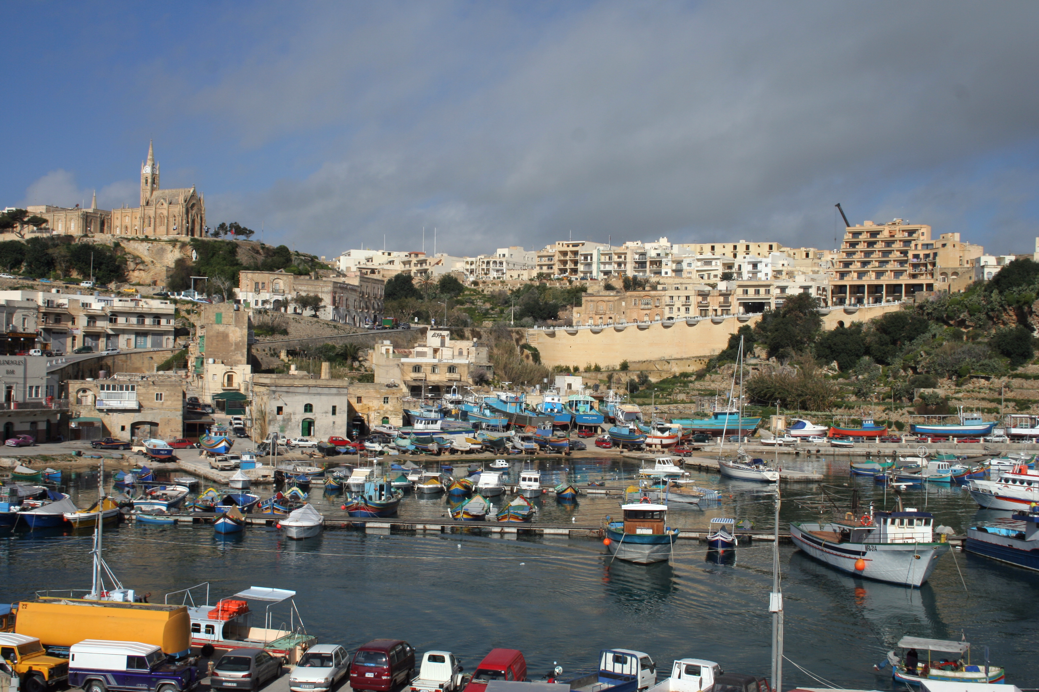 Gozo, harbour (and hotels)